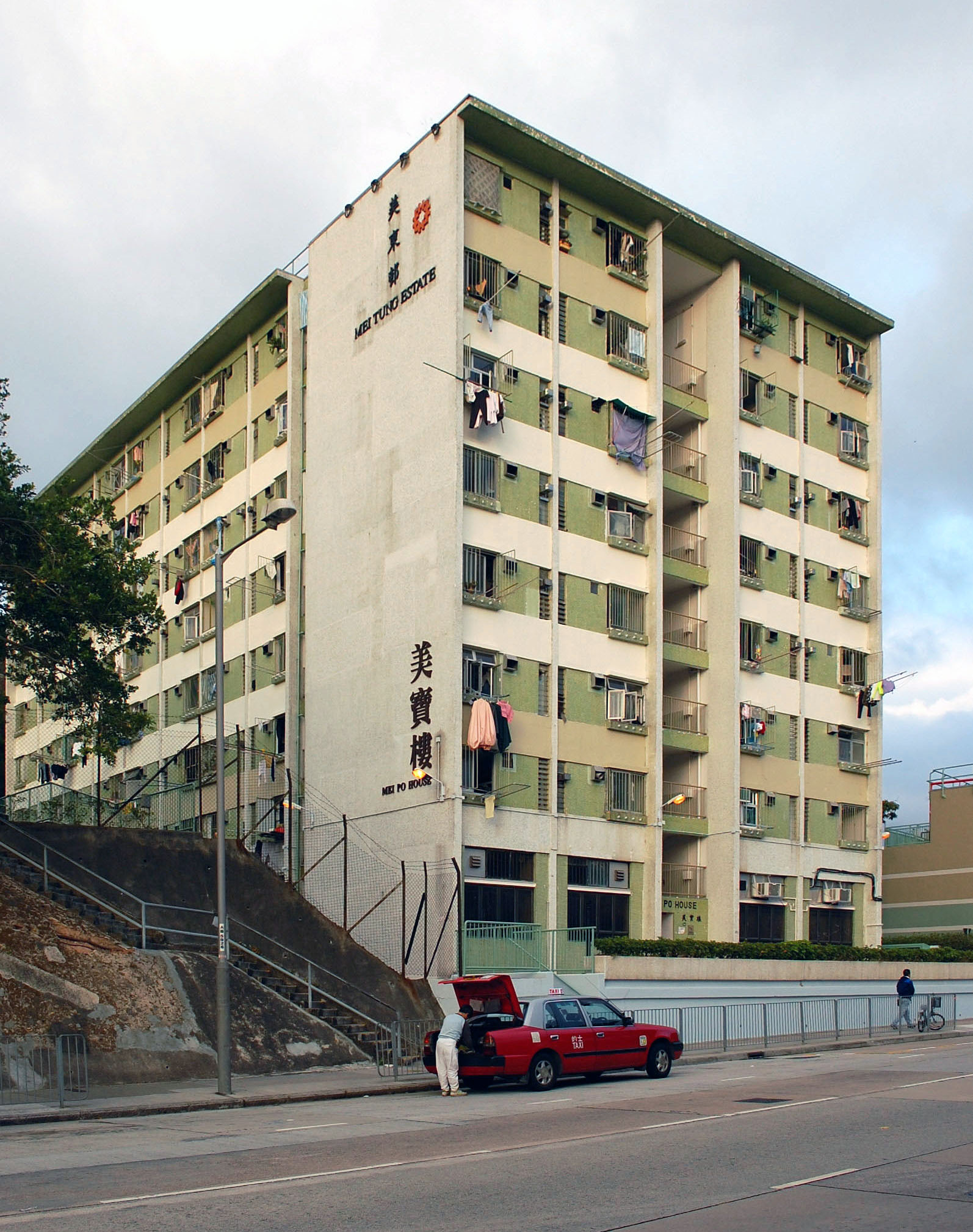 Mei Po House, Mei Tung Estate. 中文（香港）: 美東邨美寶樓